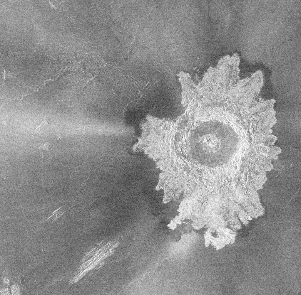 Many of the impact craters of Venus revealed by Magellan have characteristics unlike craters on any other planetary body. This 30-kilometer (18.6-mile) diameter crater, named Adivar crater for the Turkish educator and author Halide Adivar (1883-1964), is located just north of the western Aphrodite highland (9 degrees north latitude, 76 degrees east longitude). Surrounding the crater rim is ejected material which appears bright in the radar image due to the presence of rough fractured rock. A much broader area has also been affected by the impact, particularly to the west of the crater. Radar-bright materials, including a jet-like streak just west of the crater, extend for over 500 kilometers (310 miles) across the surrounding plains. A darker streak, in a horseshoe or paraboloidal shape, surrounds the bright area. Radar-dark (i.e., smooth) paraboloidal streaks were observed around craters in earlier Magellan images, but this is a rare bright crater streak. These unusual streaks, seen only on Venus, are believed to result from the interaction of crater materials (the meteoroid, ejecta, or both) and high-speed winds in the upper atmosphere. The precise mechanism that produces the streaks is poorly understood, but it is clear that the dense atmosphere of Venus plays an important role in the cratering process.